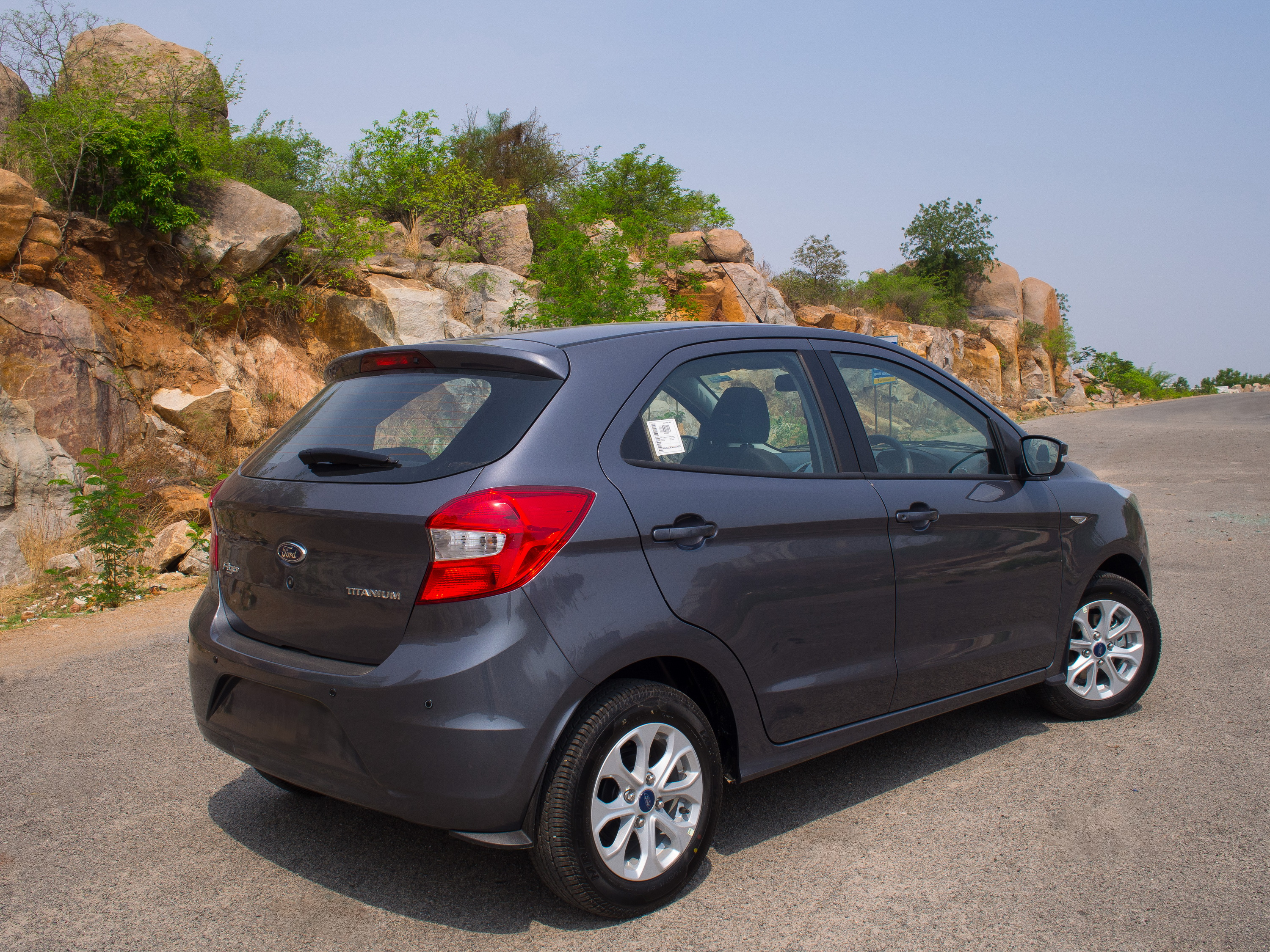 Ford Figo Second Generation (2016), Rear Right 3/4 Shot